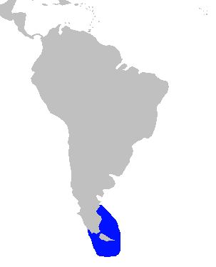 Distribution of Commerson's dolphin near South America. Source: Reyes, Laura M. Cetaceans of Central Patagonia, Argentina. Aquatic Mammals 2006. Derivative work of: File:BlankMap-World-noborders.png.